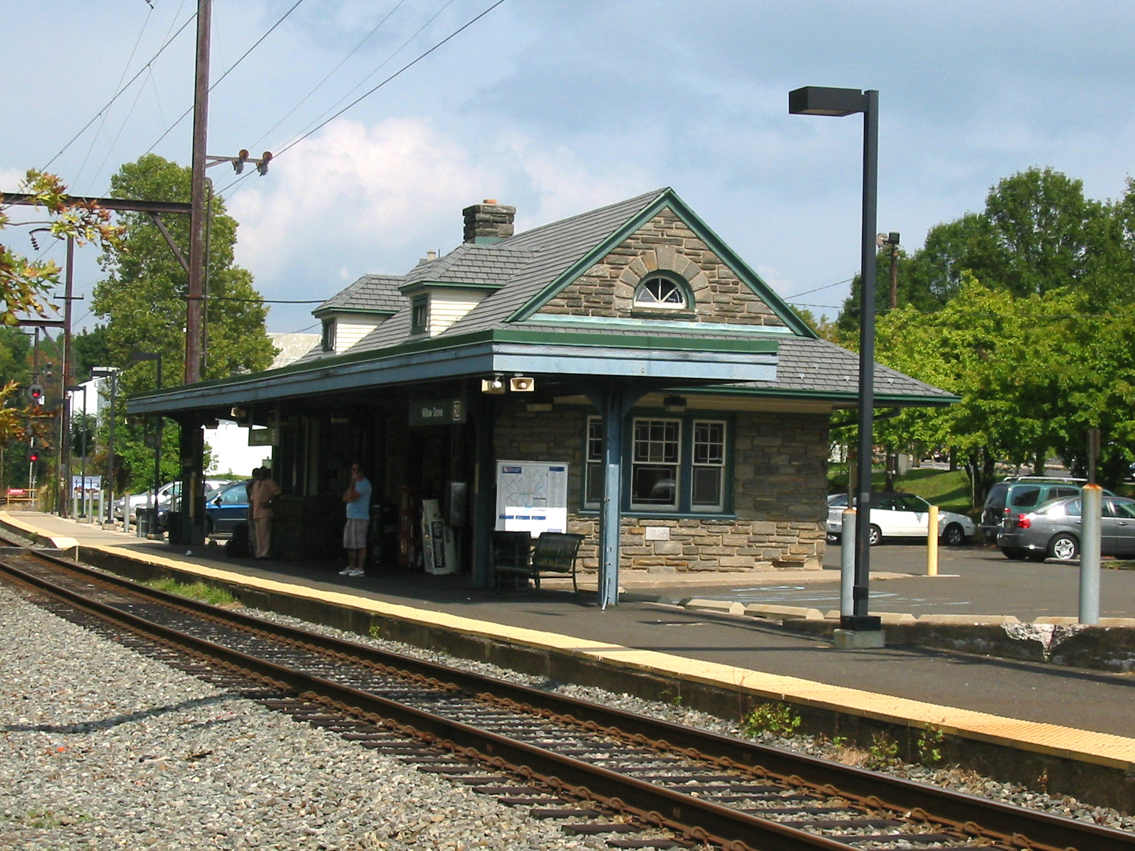 Willow Grove Station, Old York and Davisville Roads, Septa R2 line